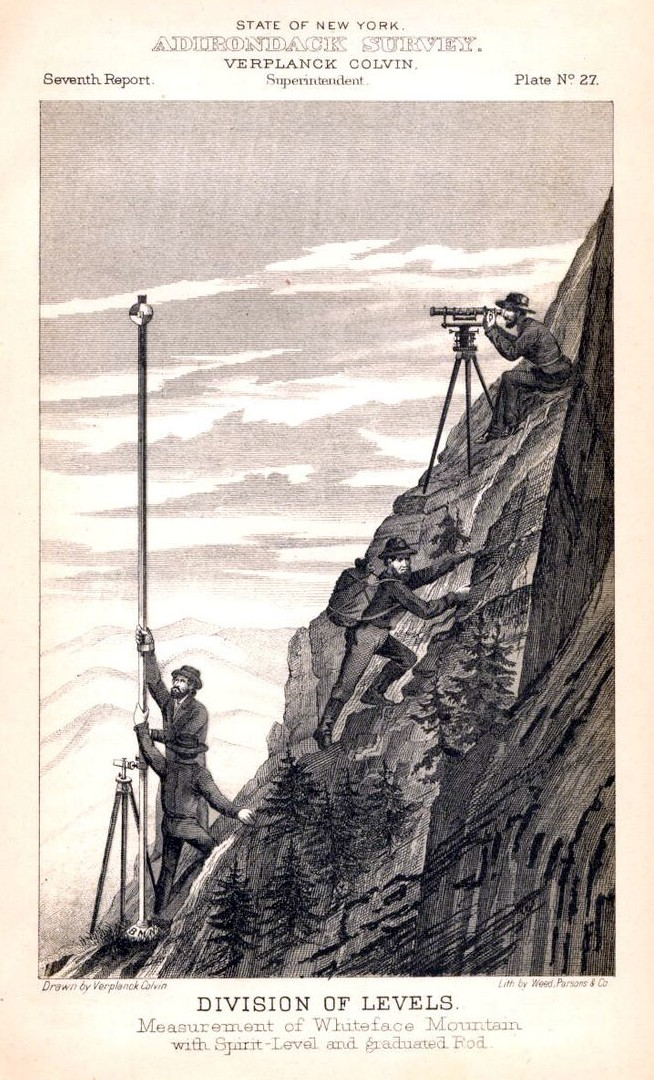 Division of Levels - Measurement of Whiteface Mountain with spirit level and graduated rod. Drawn by Verplanck Colvin. Published in the Seventh Report of the Adirondack Survey, 1879. Albany State Printer: James B. Lyon, 1881.